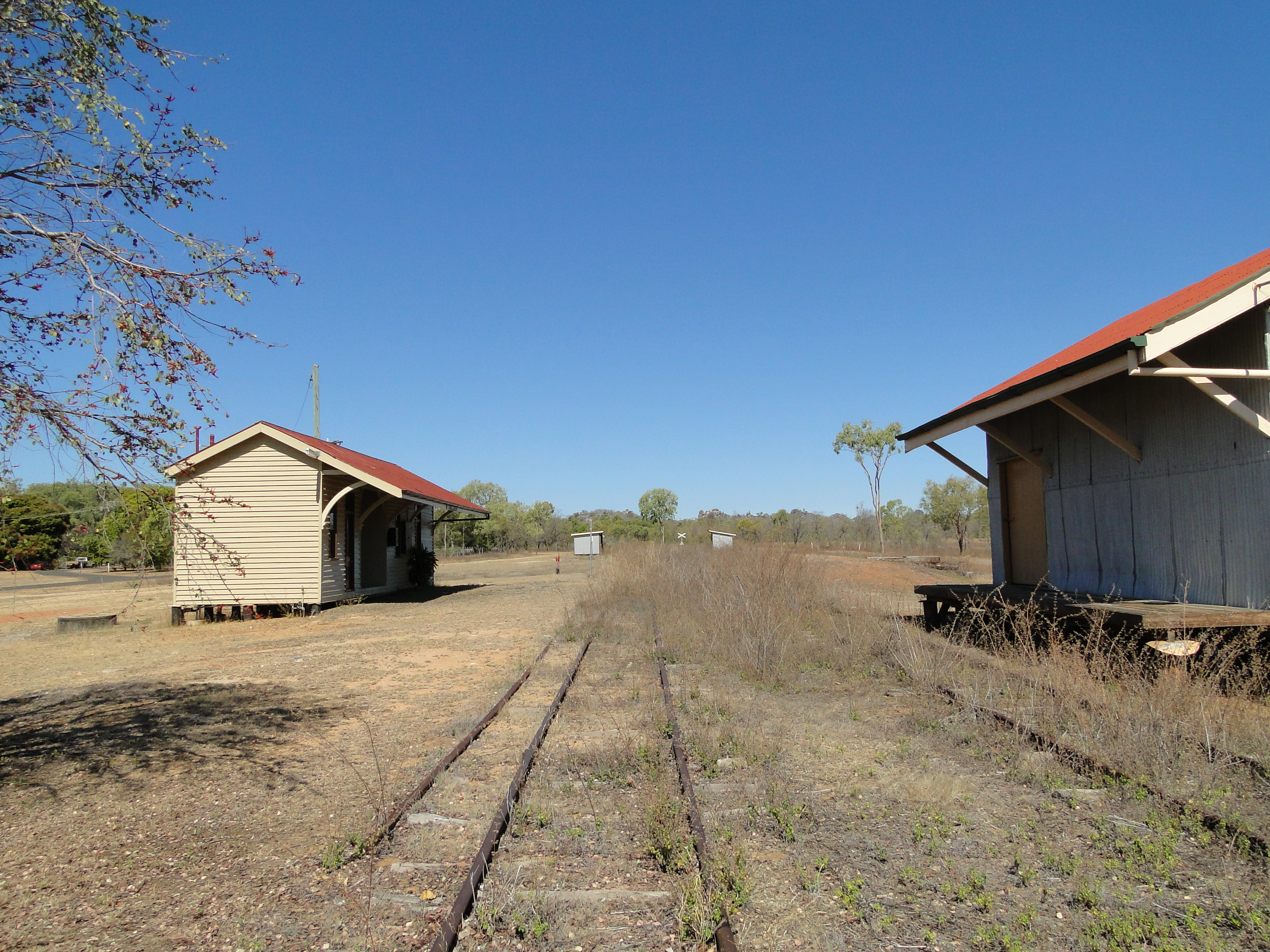 Abandoned wooden railway buildings at Chillago, Queensland, Australia looking along the railway tracks